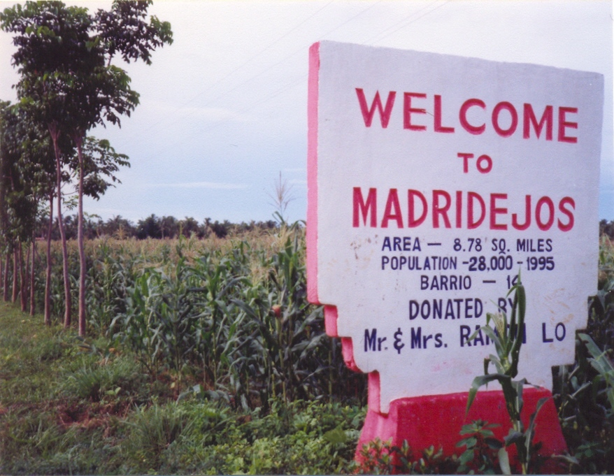 Sign of Madridejos on Bantayan Island (Cebu, Philippines)